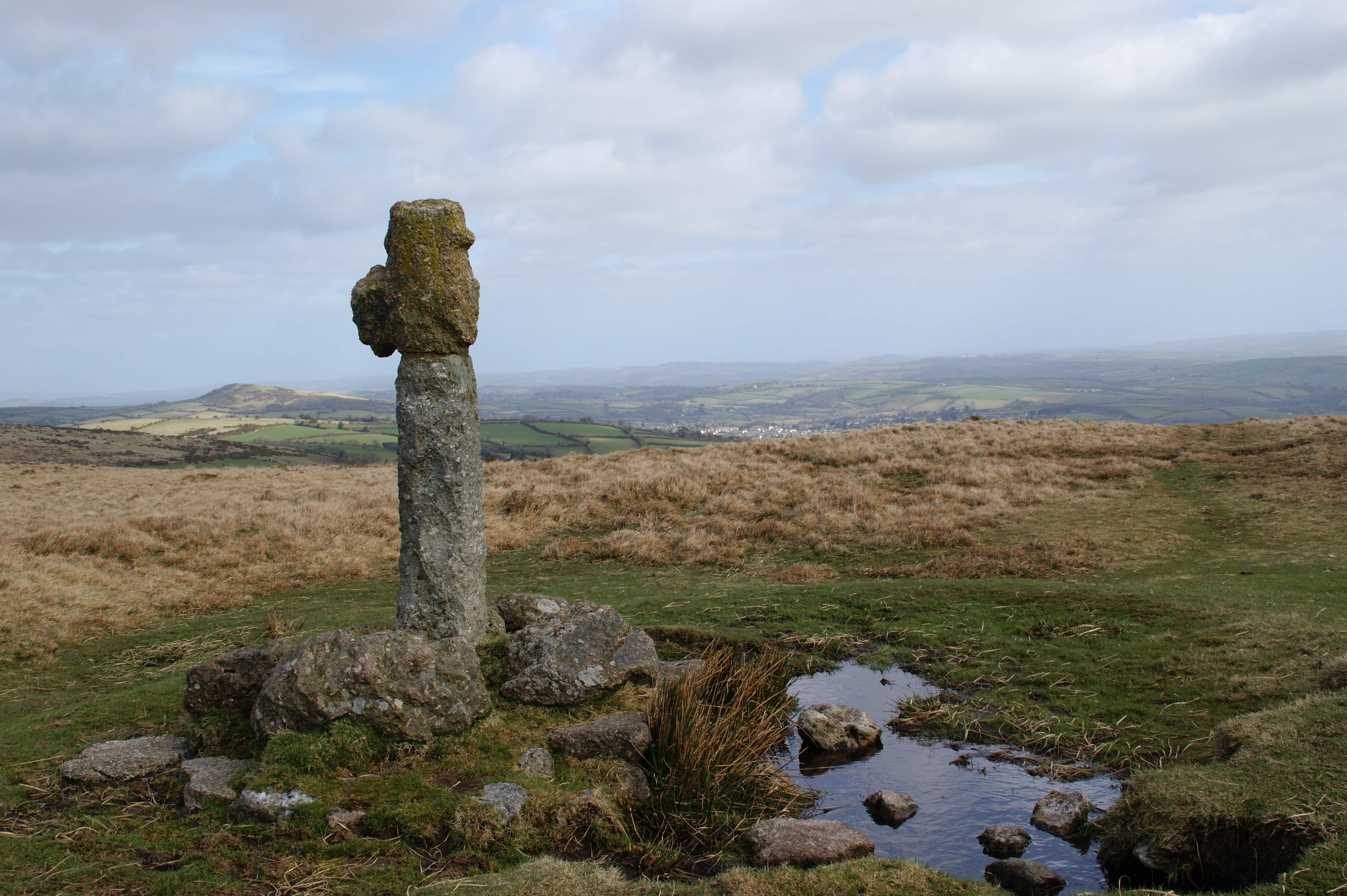 Spurrell's Cross on the southern edge of Dartmoor